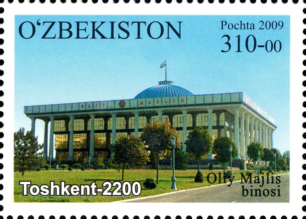 Stamps of Uzbekistan, 2009